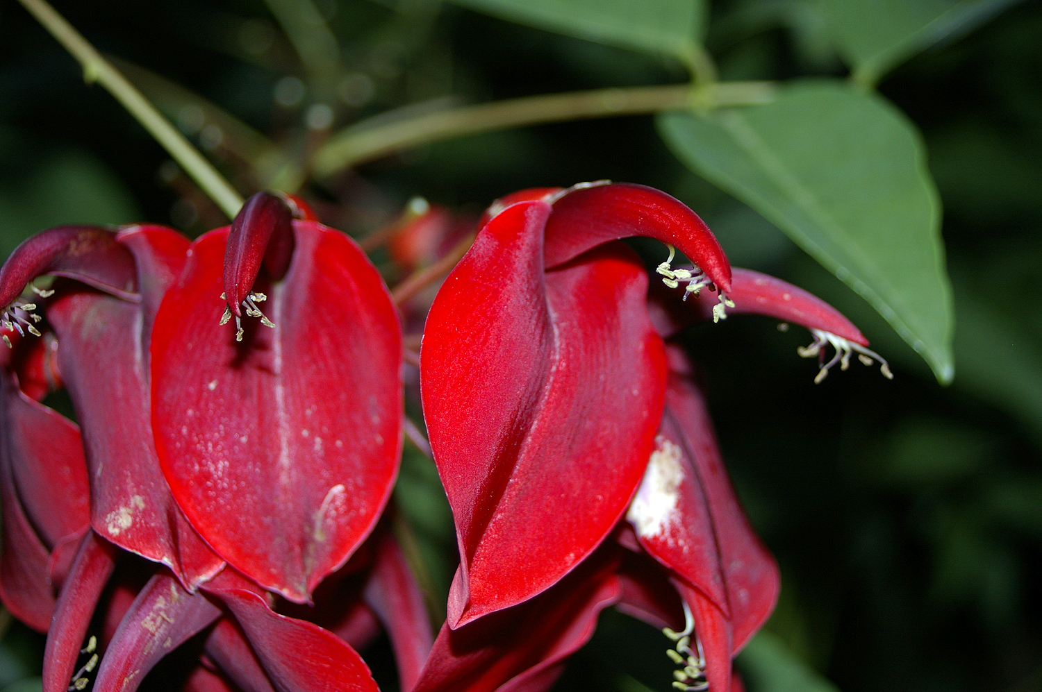 Erythrina crista-galli (Cockspur Coral Tree) flowers. Photographed in Wagga Wagga, New South Wales.